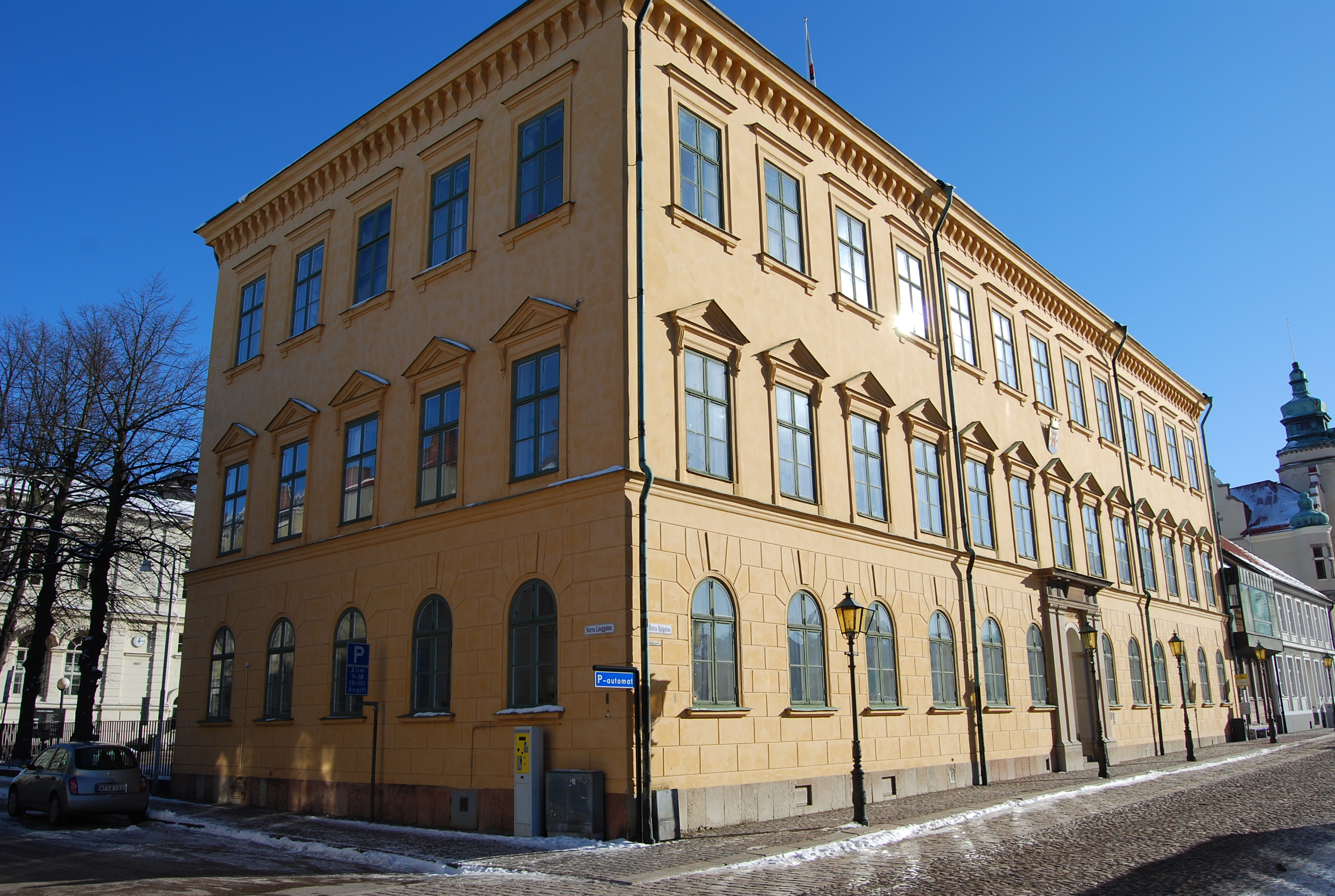 Kalmar City Hall, Östra Sjögatan 18, Kalmar